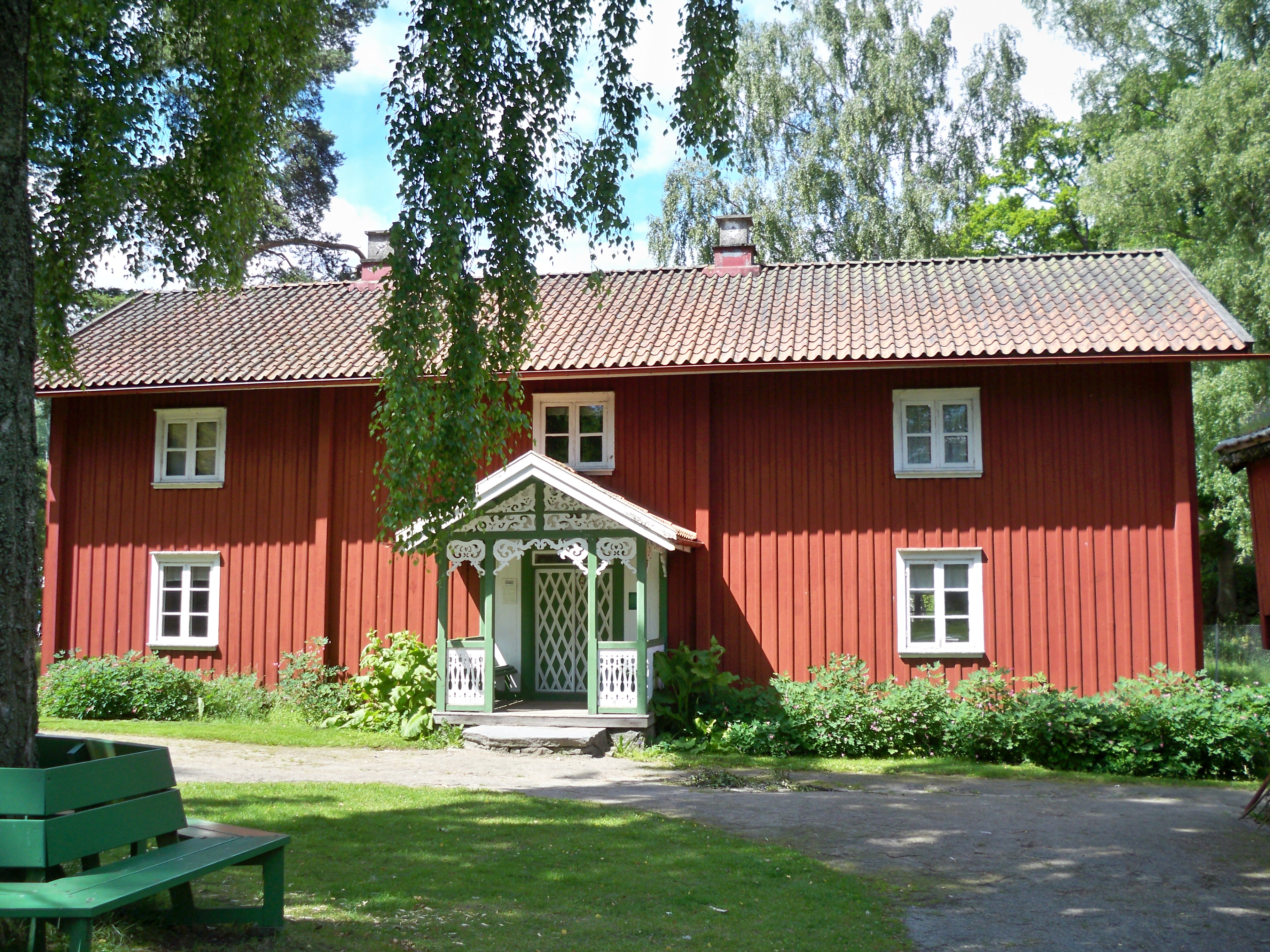 Named after its original place, this house is called Fällhult or Förläggargården Fällhult describing it as the estate of a pre-industrial textile entrepreneur. It was built in 1795 in the parish of Holsljunga, and became the birth-place of Anders Jönsson (1816-1890), a famous Swedish entrepreneur who continued a putting-out business here. He contracted up to 200 domestic workers, who came here to get the raw material and returned after a couple of weeks with textiles, that local peddlers from the city of Borås then bought and went out to sell among other things around Sweden and Norway. The building was moved from Fällhult in 1950 to the open air Borås museum of historical buildings in Ramnaparken.